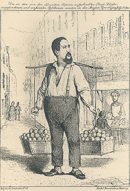 German caricature of Frederik VII of Denmark made during the First Schleswig War.